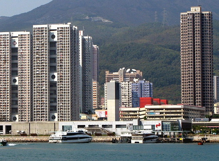 Cropped version of HK MTR Tsuen Wan West Station Site 5-6. Focus on Clague Garden Estate, Tsuen Wan Ferry Pier, Tsuen Wan West Station, Tsuen Wan Transport Complex, Skyline Plaza.